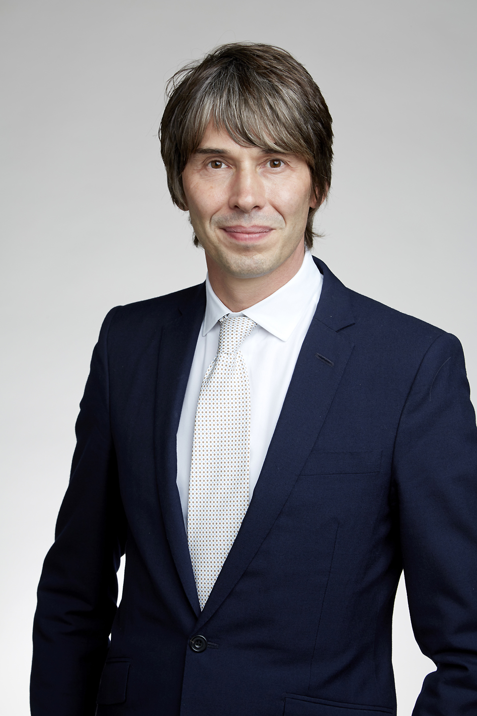 Brian Edward Cox, OBE, FRS (born 3 March 1968) is an English physicist and Professor in the School of Physics and Astronomy at the University of Manchester. Attribution: The Royal Society